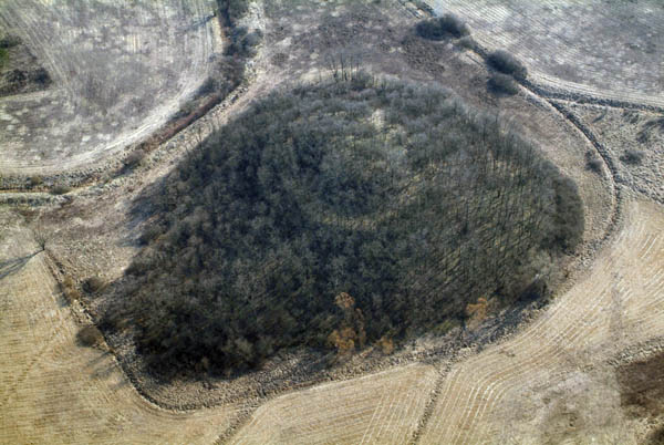 Bükkszék, Pósvár, Hungary, aerial photography, castle